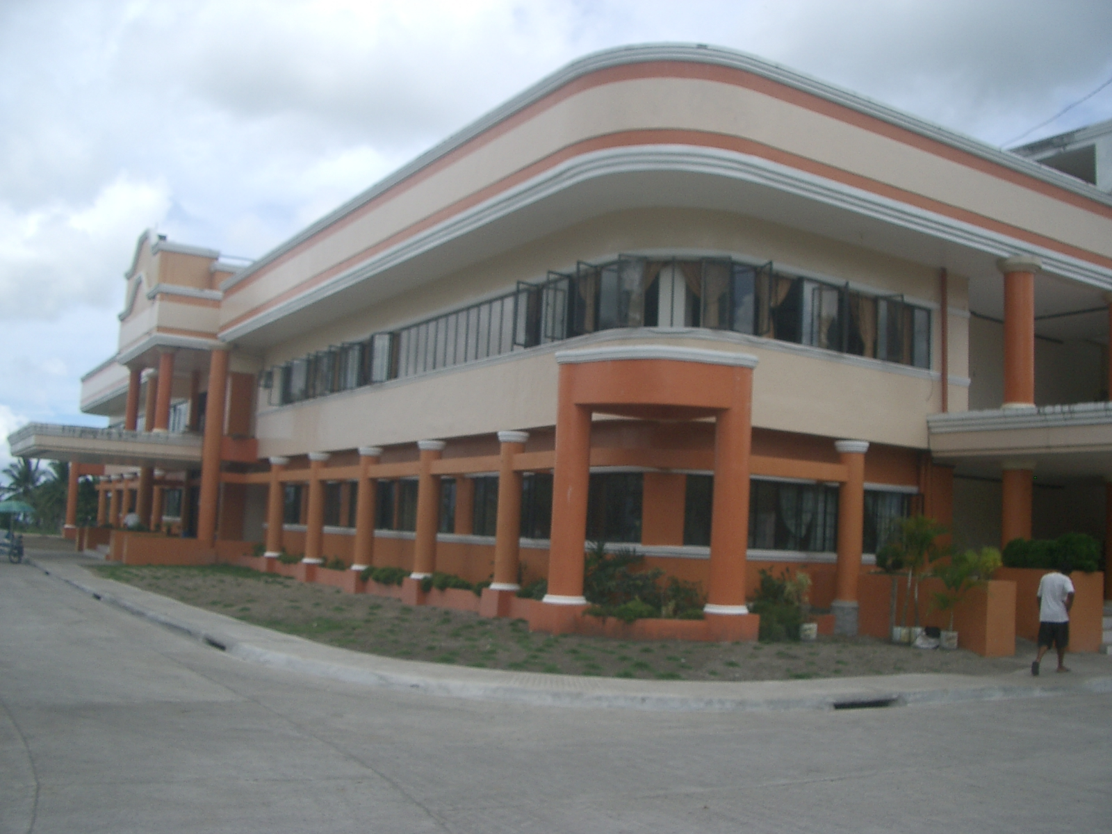 Municipal Hall of Goa, Camarines Sur, Philippines